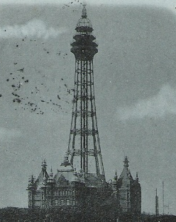 New Brighton Tower from old postcard posted in 1900.